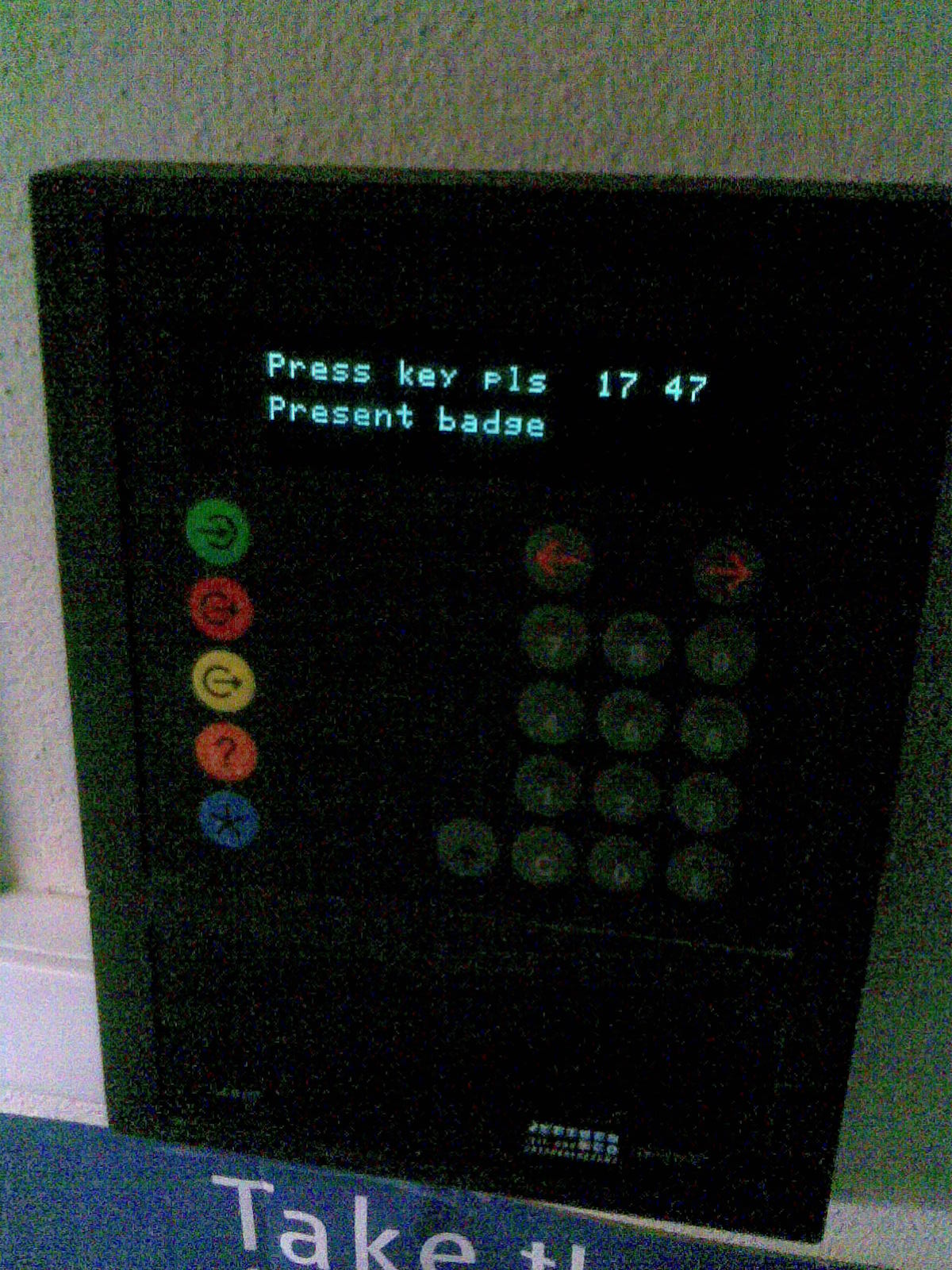 Electronic clocking terminal, own picture, February 2009.